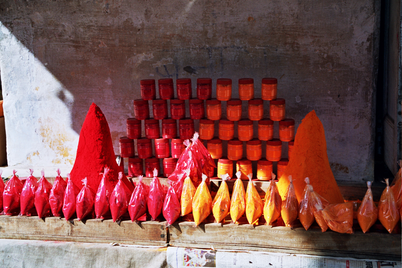 Shop selling Sindoor (Vermilion) in Pushkar, Rajasthan.